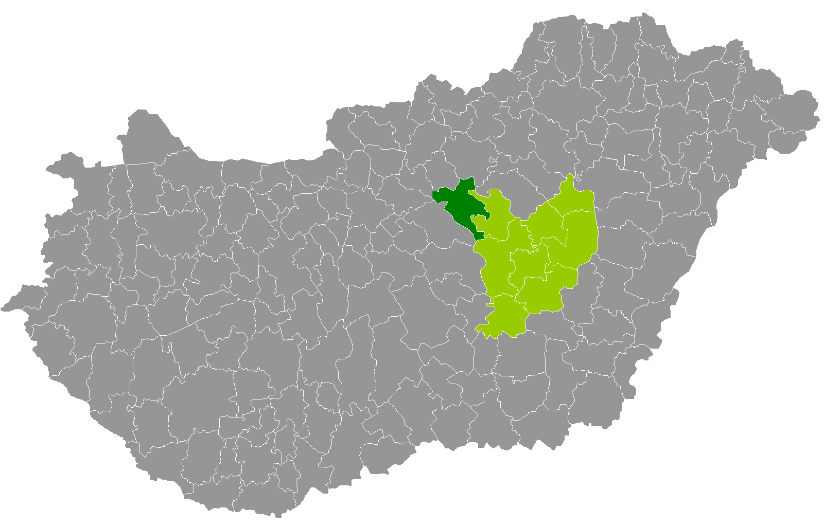 Location of Jászberény District, Jász-Nagykun-Szolnok, Hungary